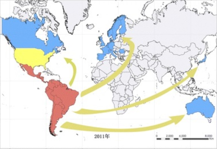 Red is endemic areas where transmission is through vectors; yellow is endemic areas where transmission is occasionally through vectors; blue is non-endemic areas where transmission is through blood transfusion or organ transplantation